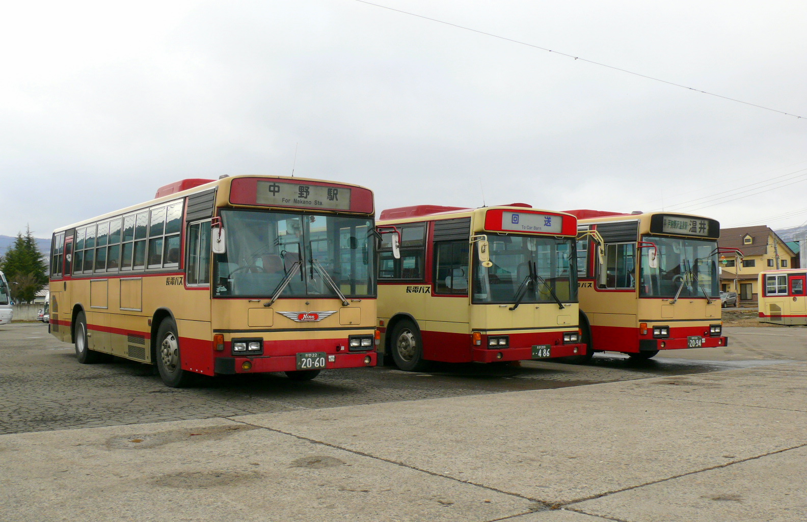 Nagaden Bus.It takes a picture in the Kijima station Bus terminal.